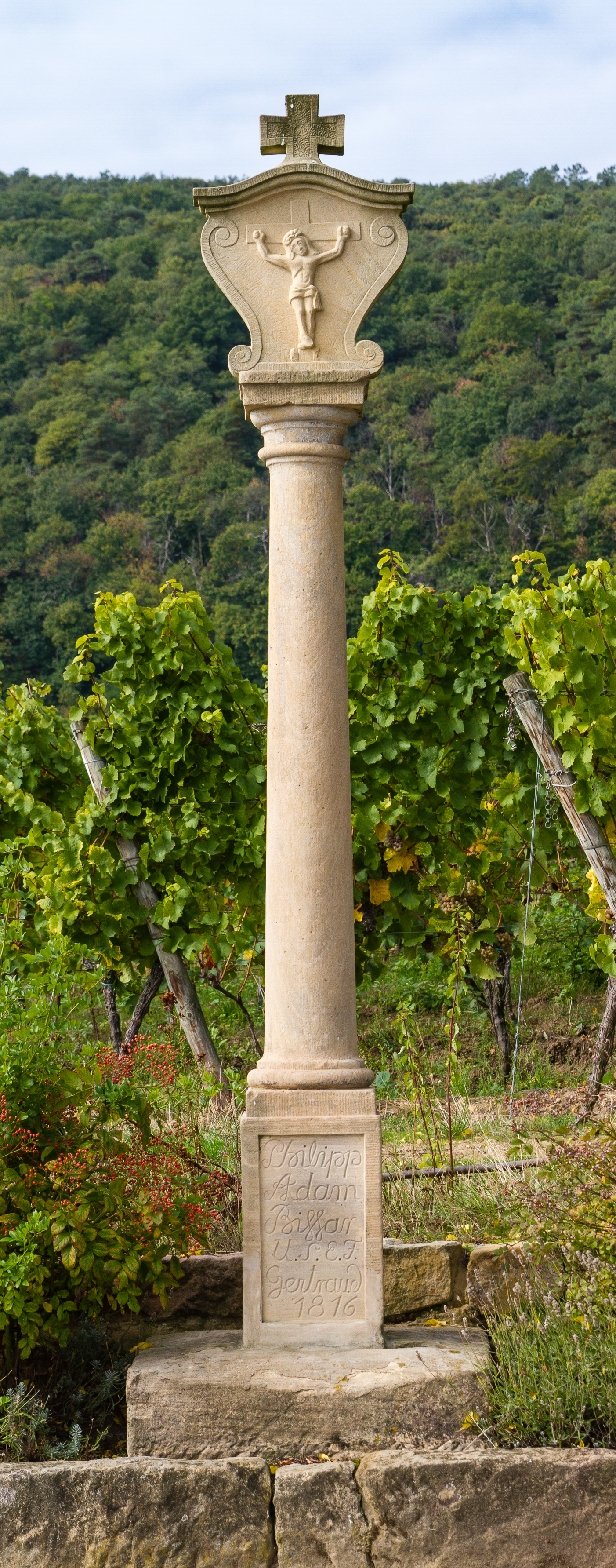 Designation: Wayside shrine Location: At a crossroads northwest outside the village. Parcel of land: Kehr Place: Deidesheim, District Bad Dürkheim, Rhineland-Palatinate Construction time: identified by 1816 Description: Tuscan column with post-baroque attachment, yellow sandstone.